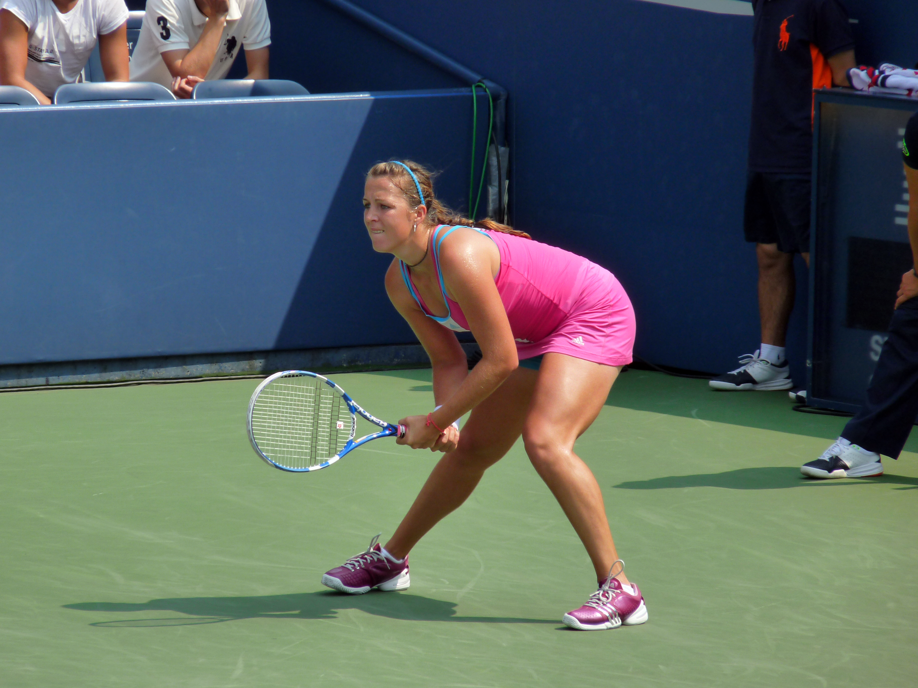 Anastasia Pavlyuchenkova vs Jelena Janković at US Open 2011